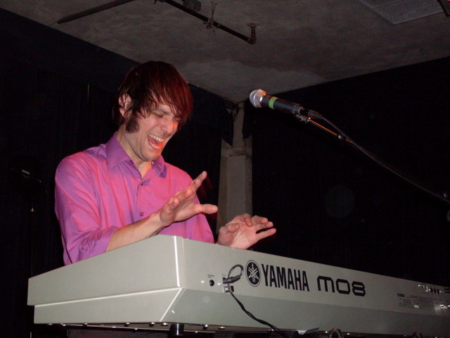 A photograph of musician Dustin Lanker.